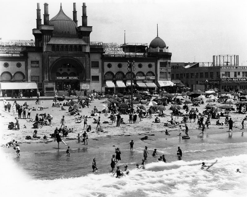 A view of the beach and ocean water with the Ocean Park bath house in the background, offering (sign over the door) moonlight bathing. To the right is a building Denver Hotel with a sign below it announcing Yosemite Auction.